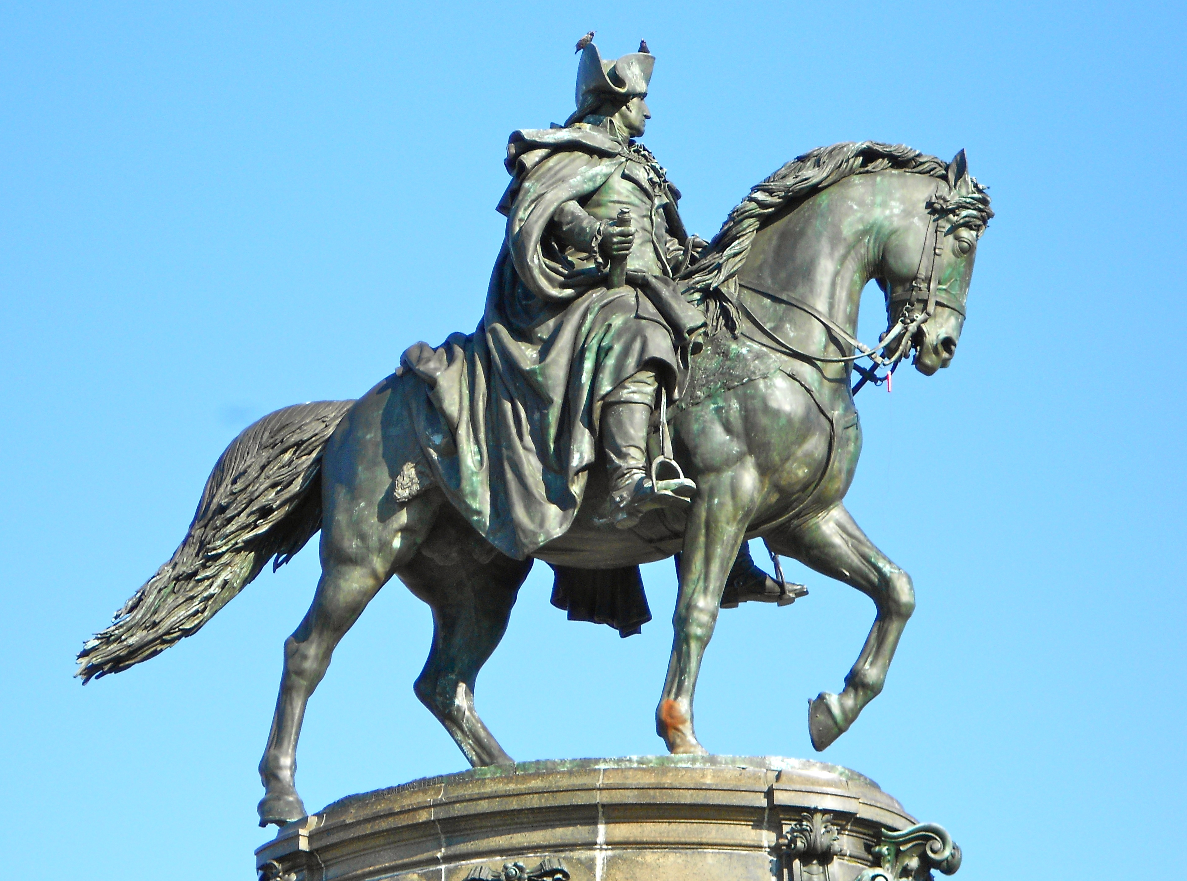 Sculpture from 1800s in front of Philadelphia Museum of Art, the George Washington statue.